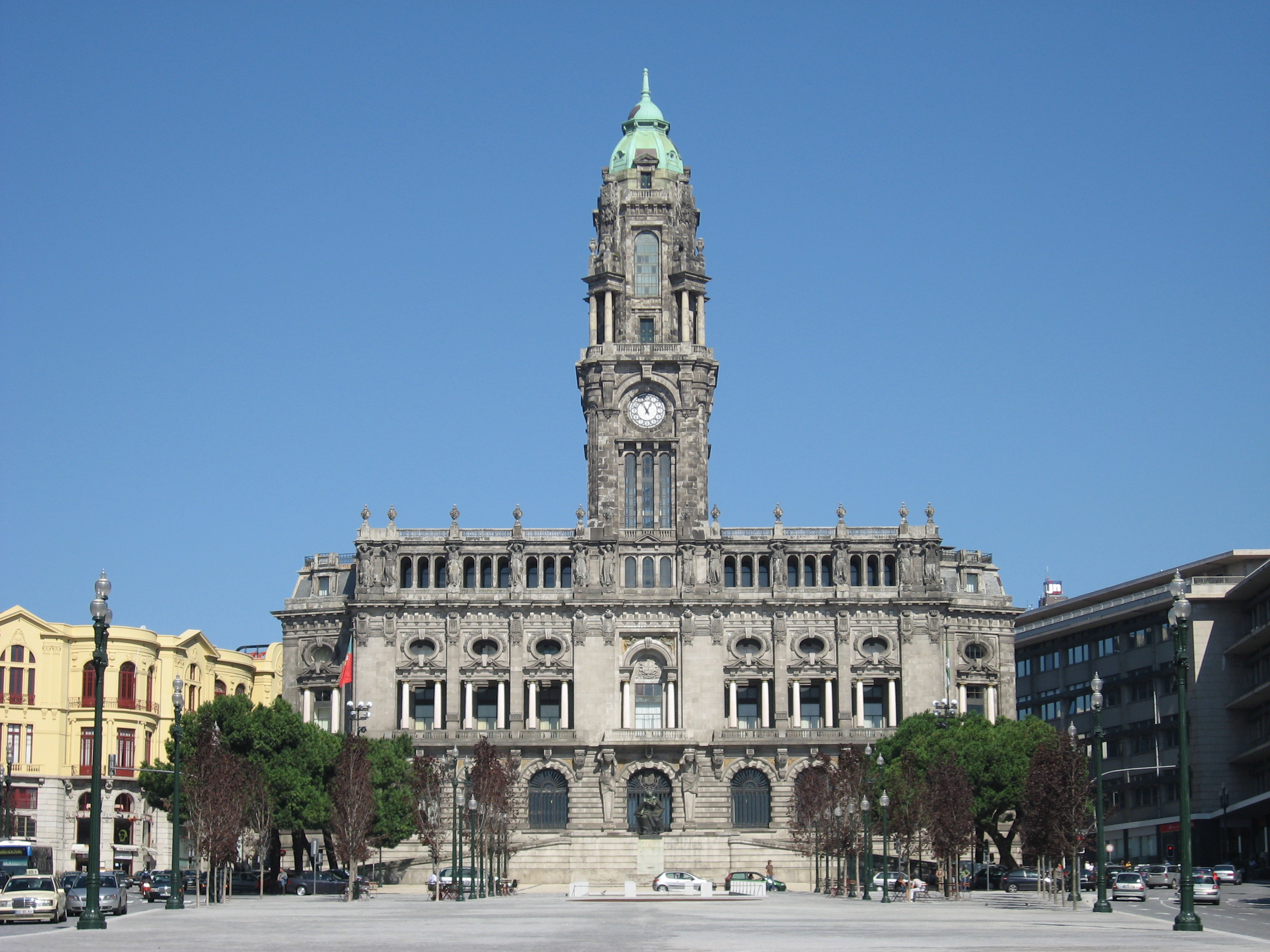 Porto City Hall, Portugal. Photo taken by Alan Ford 2006-10-14.